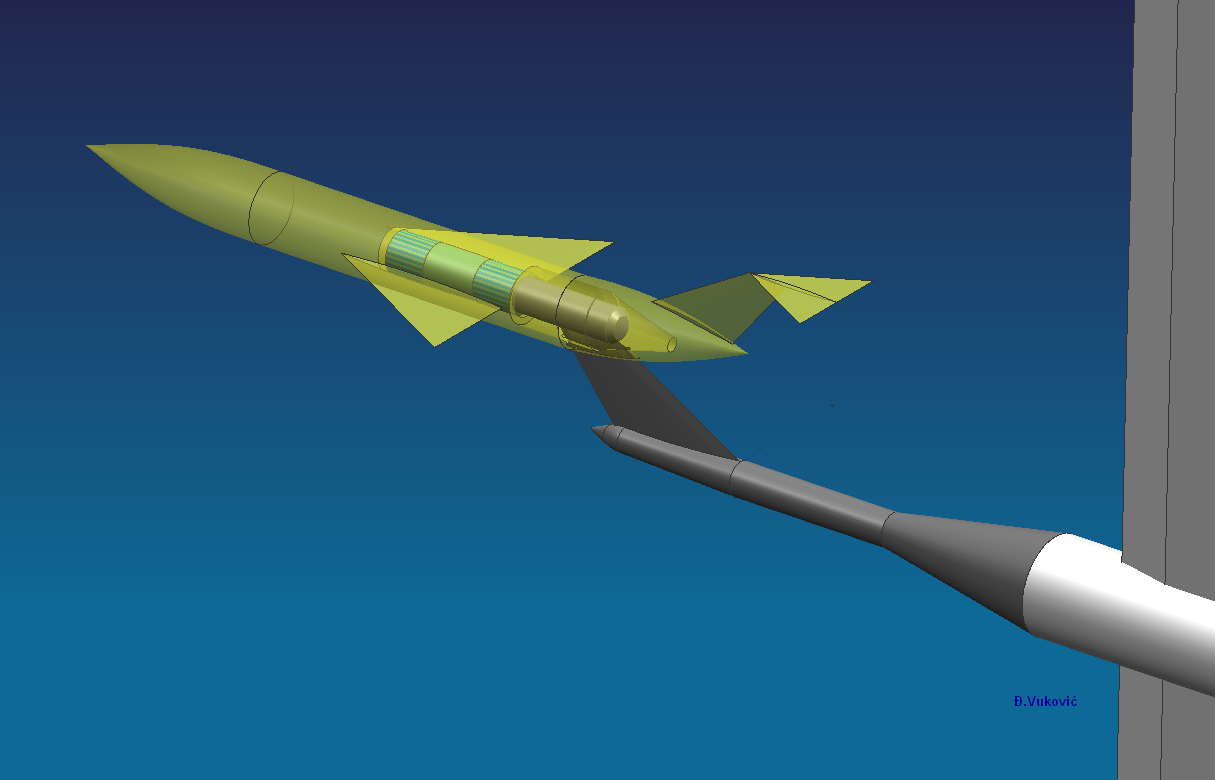 Picture illustrates the concept of a Z-sting fixture for wind tunnel models